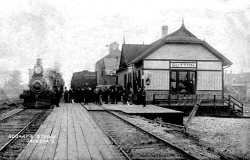 The second STR station in Sutton, Ontario.